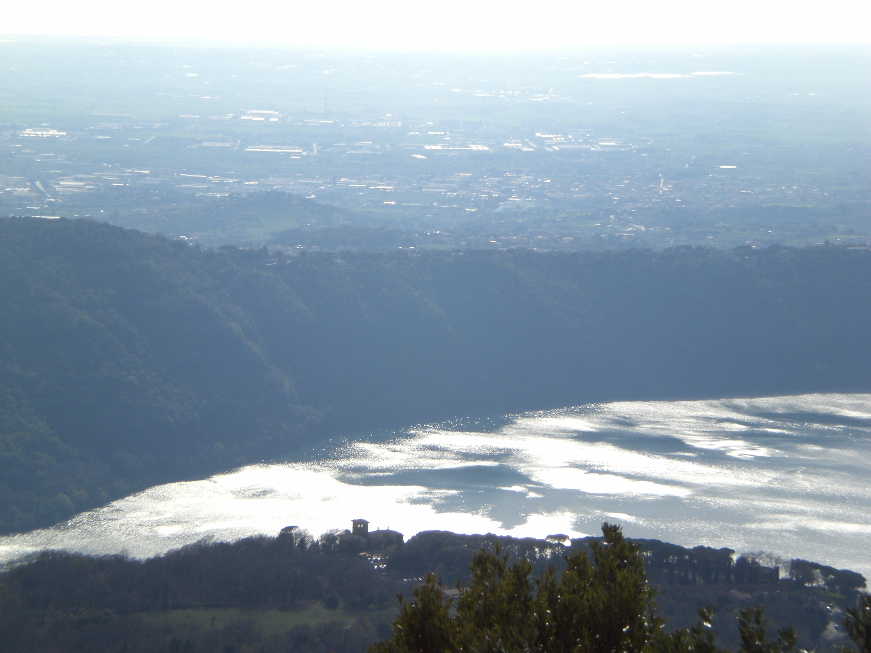 Panorama view from Sacret Way of Albano Lake